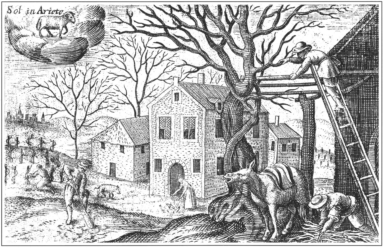 Martius, Aleksander Tarasowicz